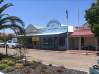 A photo of the Westonia shire offices, part of the iconic Wolfram Street facades. This photograph was taken by myself and also features on the Shire of Westonia website. As the author of the photograph, I give permission for it to be displayed on Wikipedia.